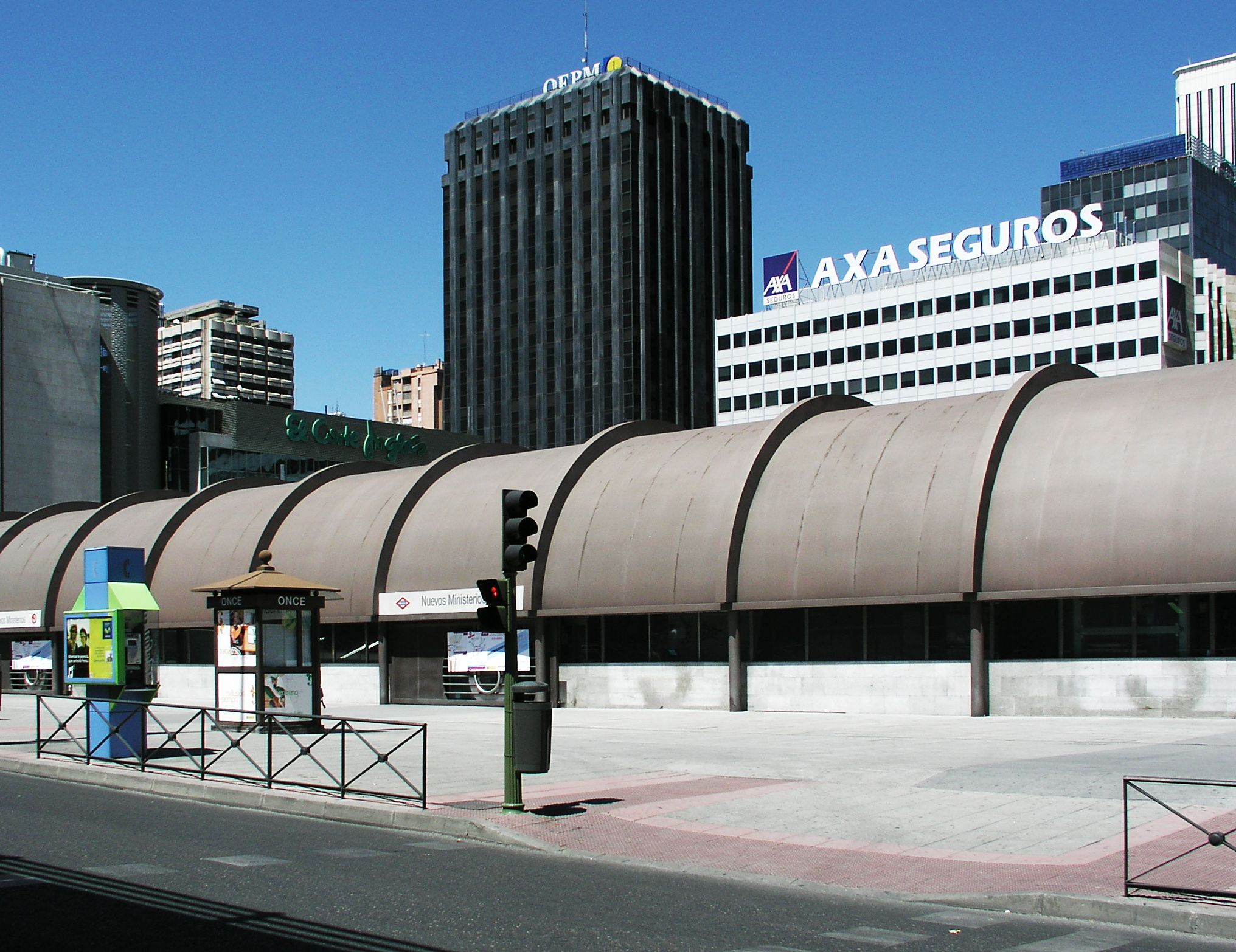 Madrid metro station: Nuevos ministerios. Spain.